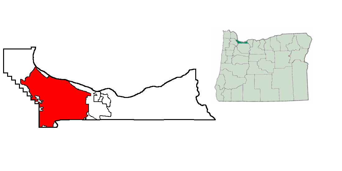 Portland, Oregon. Made using US Census Bureau Data.